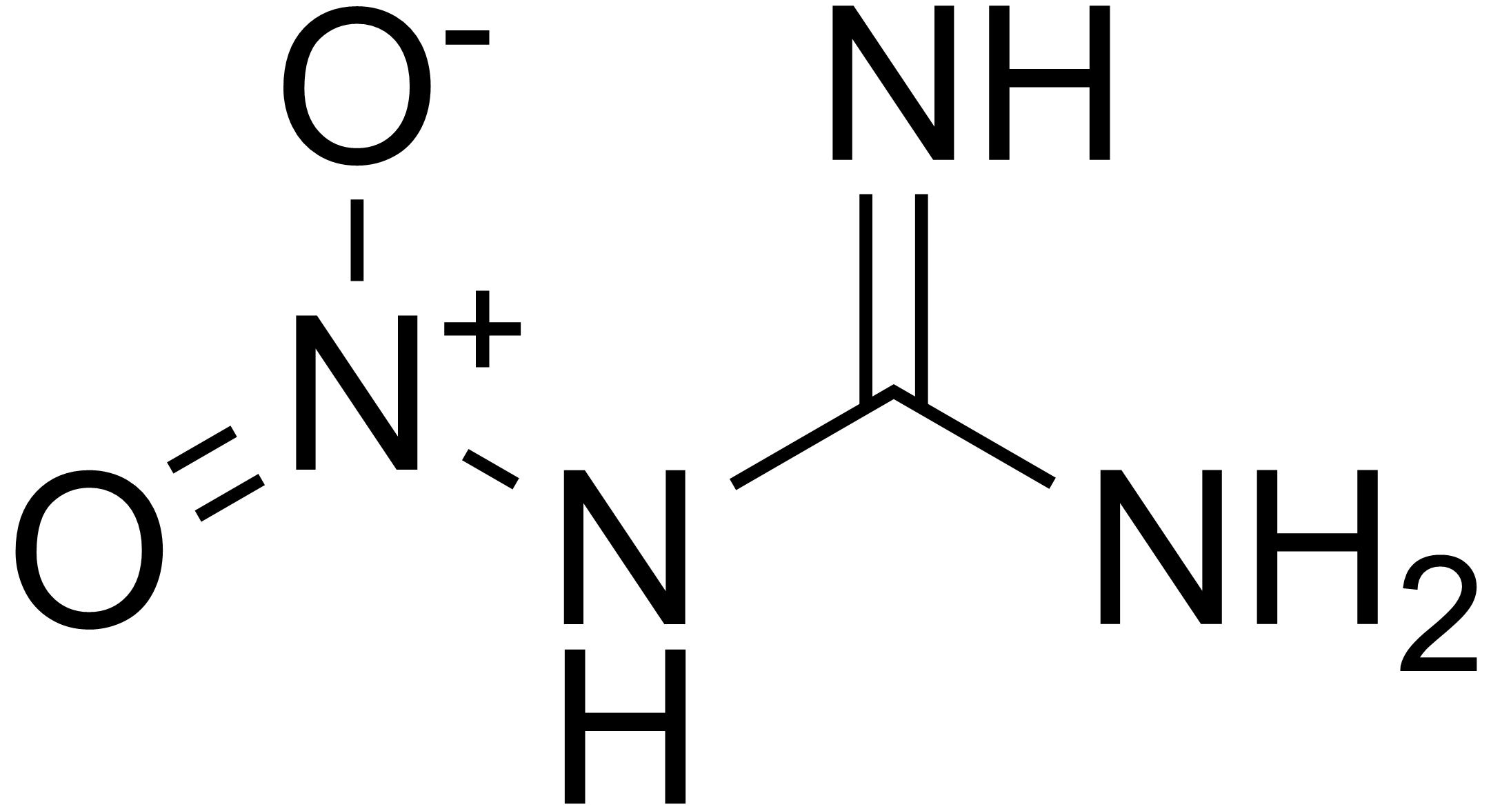 Chemical structure of nitroguanidine.